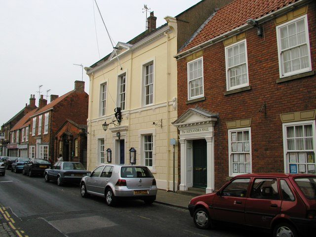 Hedon Town Hall and Alexandra Hall, Hedon, East Riding of Yorkshire, England.